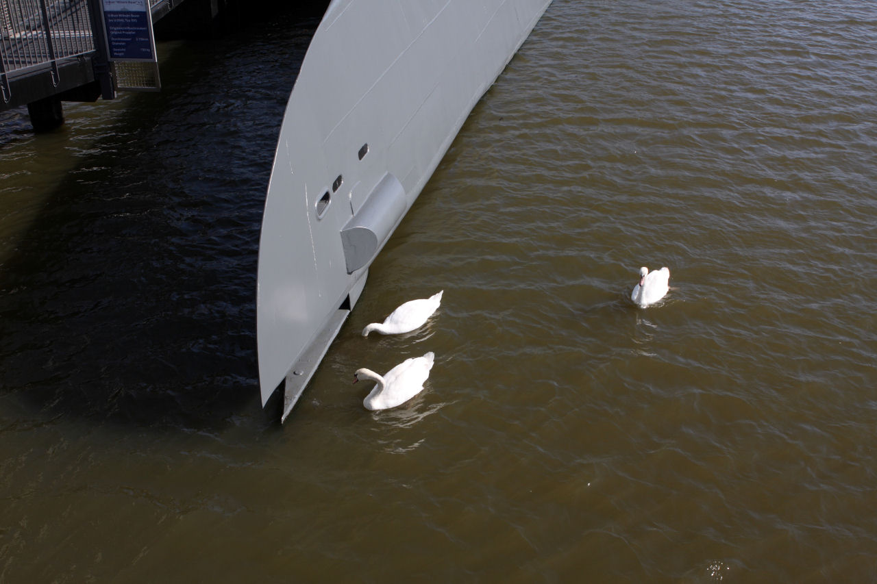 Rudder of submarine Wilhelm Bauer (ex U 2540).